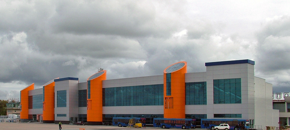 Khrabrovo airport terminal